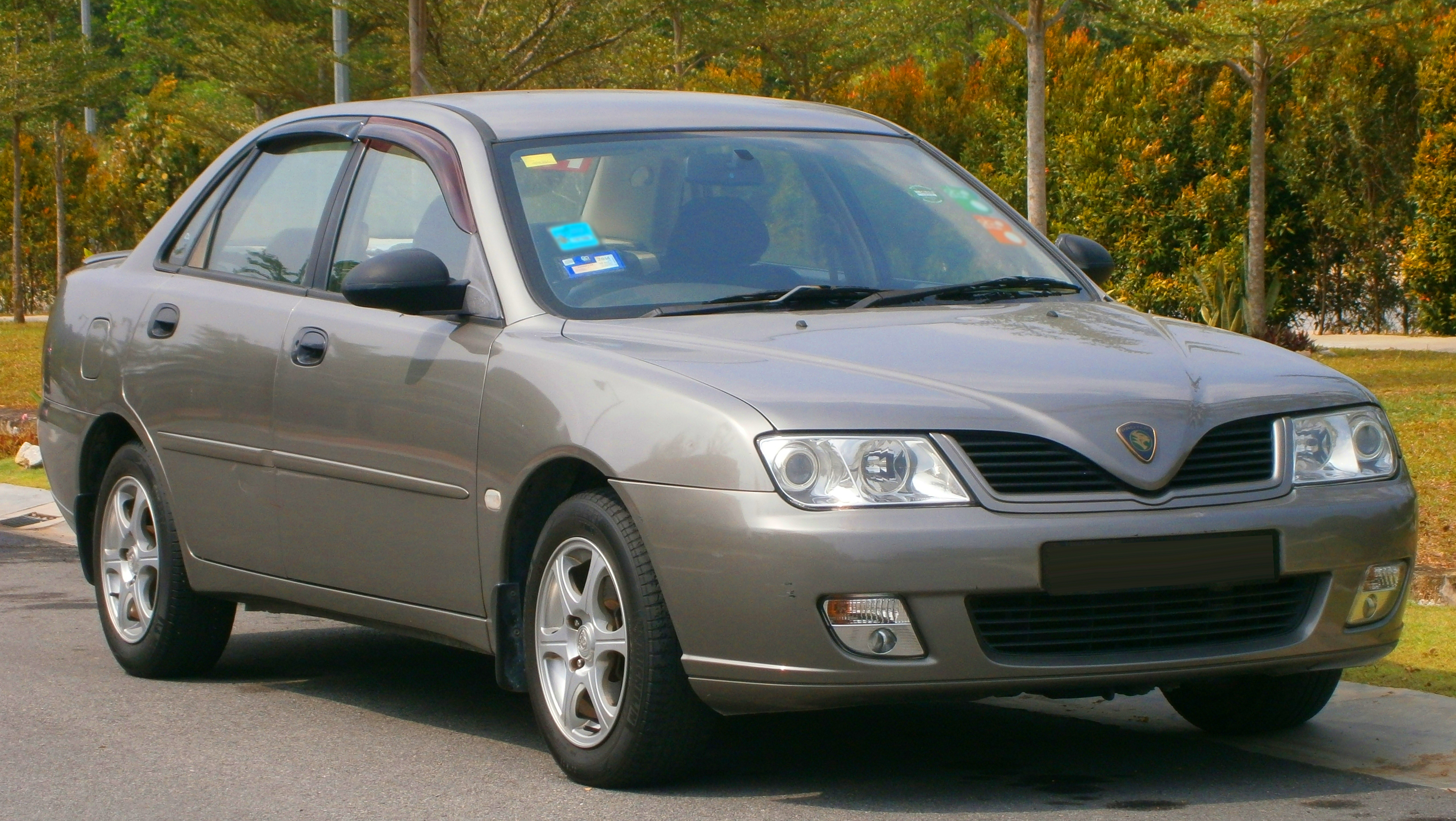 2005 Proton Waja 1.6 (4G18) in Puchong, Malaysia. Designed & Assembled in Malaysia